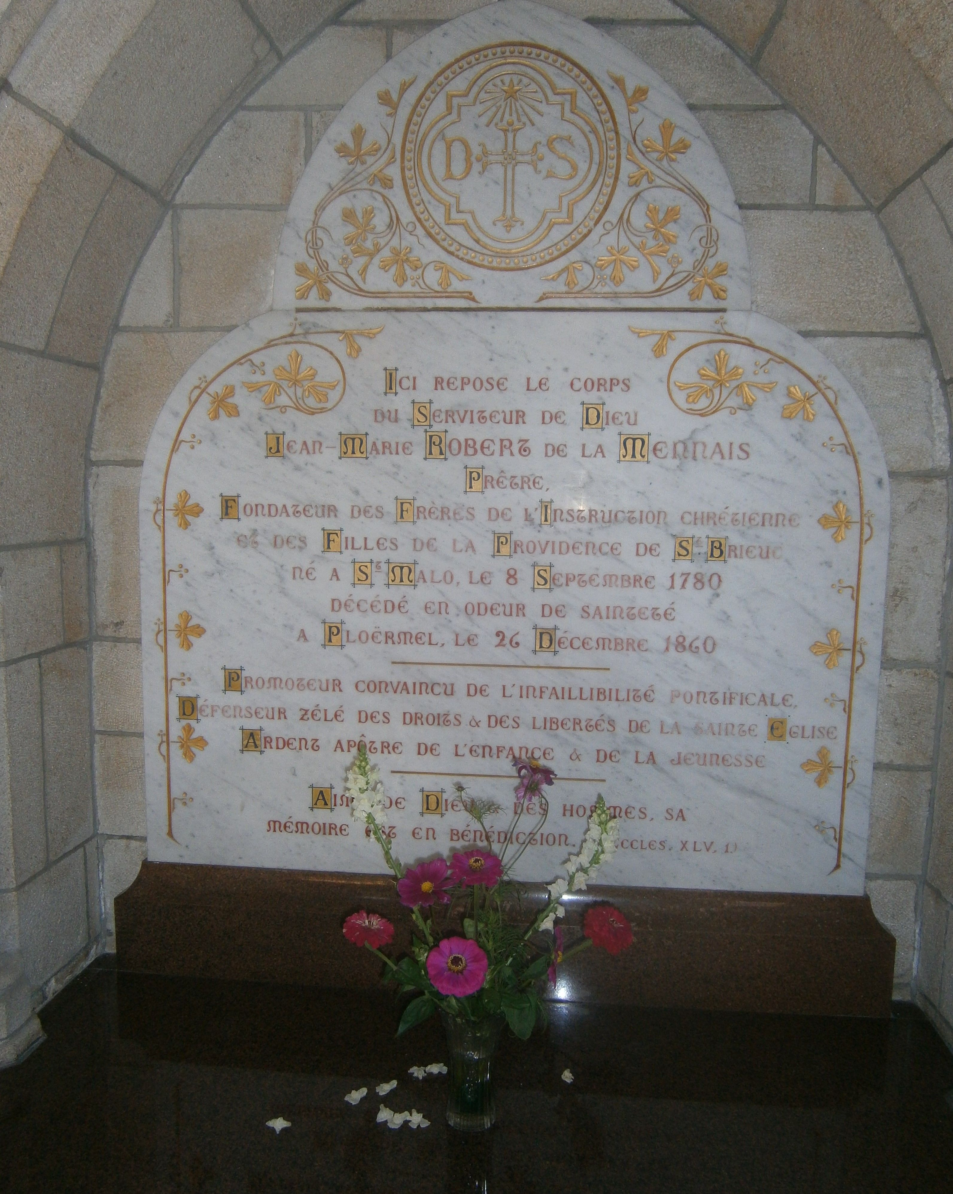 Tombe de Jean-Marie de la Mennais à Ploërmel